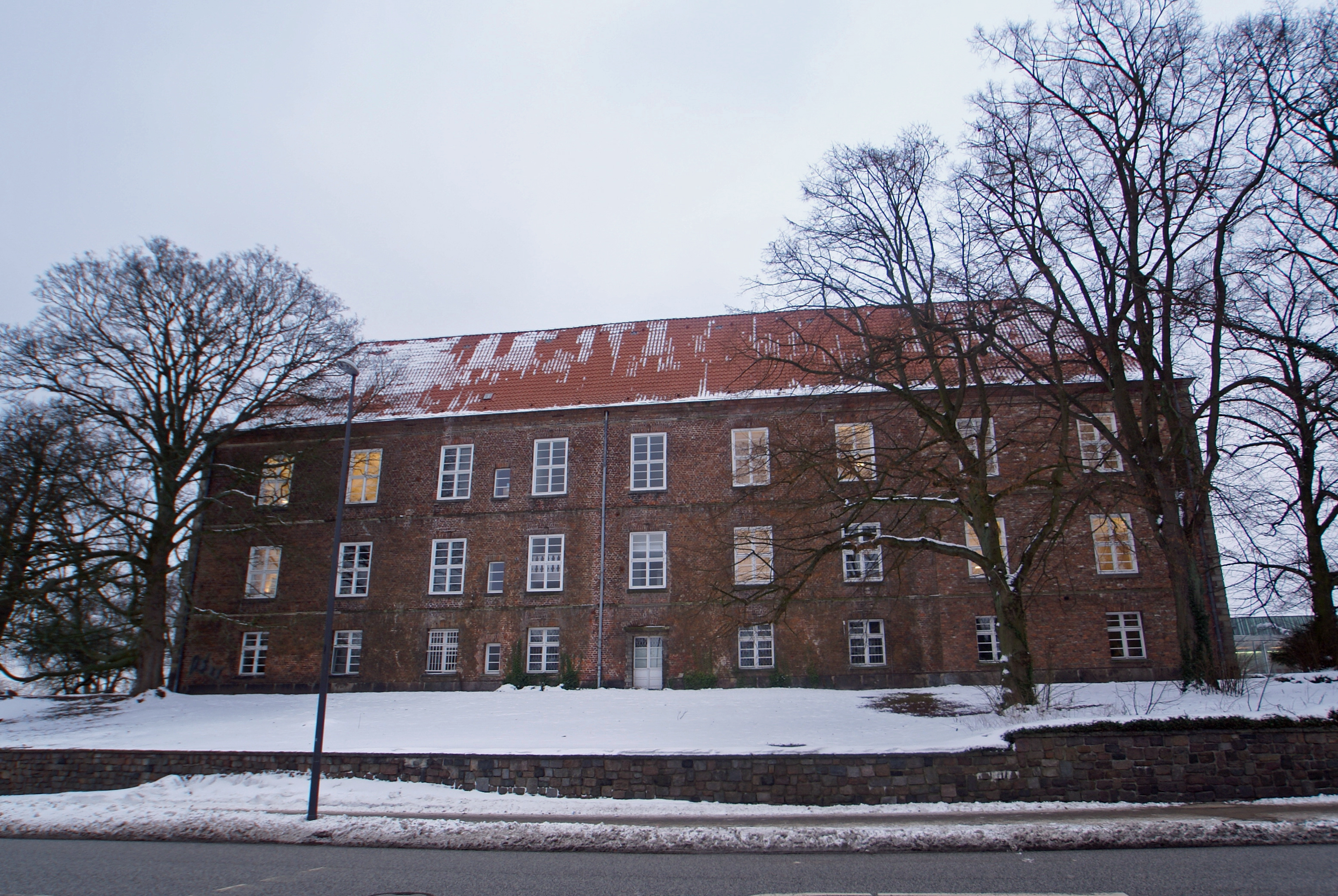 Kiel, Germany: Kiel Castle: old